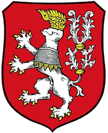 Coat of arms of Ústí nad Labem town, Czech Republic